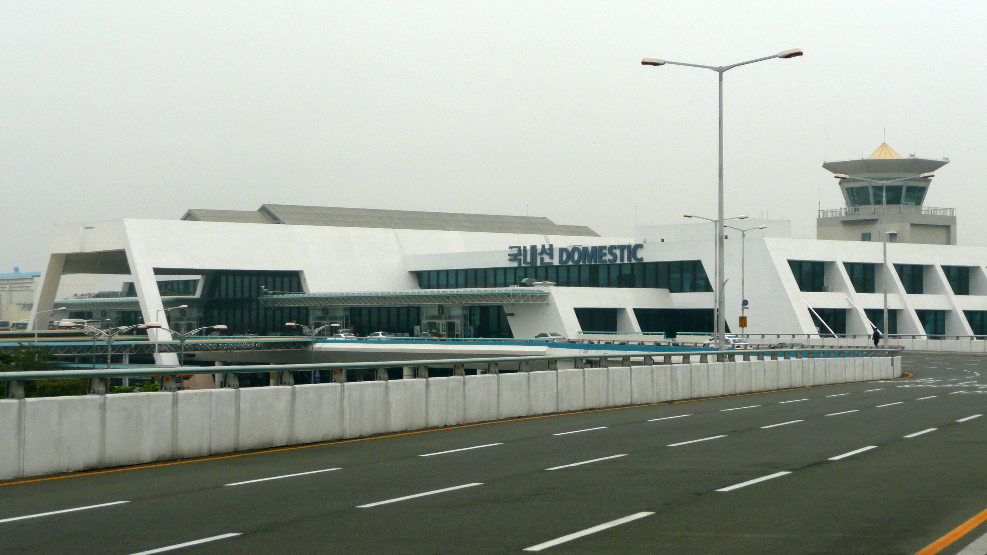 Airport Gimhae, Busan, South Korea